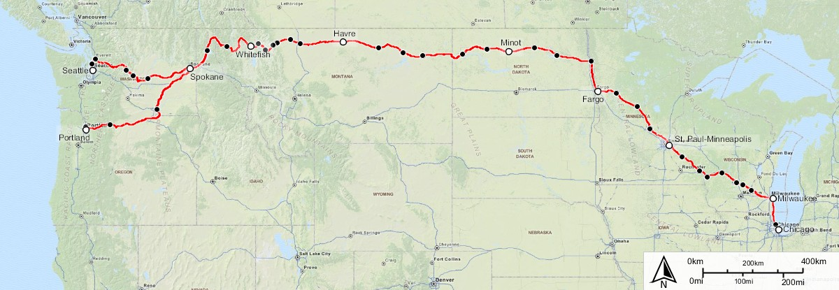 Amtrak Empire Builder Legend: ━━━ Rail route